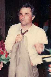 Peter Falk at the premiere of Bette Midler's movie THE ROSE, 11/7/79.